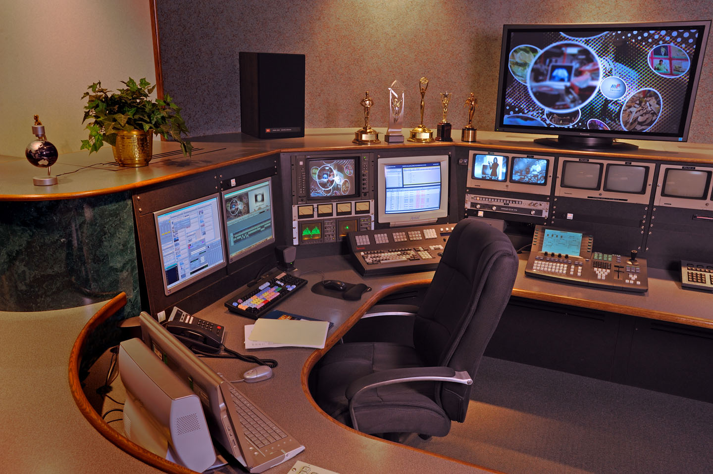 Photography of the Video Wisconsin video editing studio.